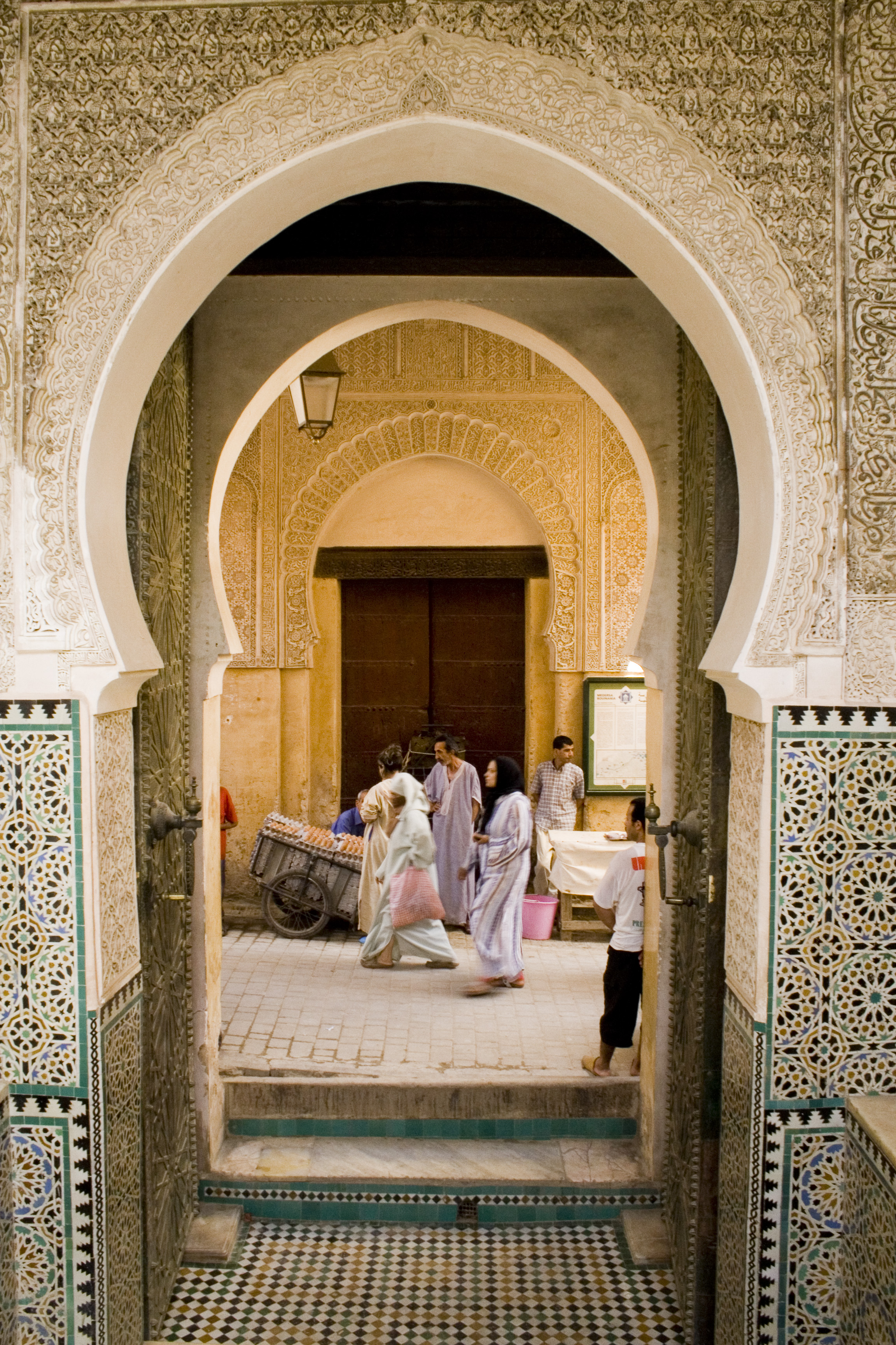 A view onto a street in Fez